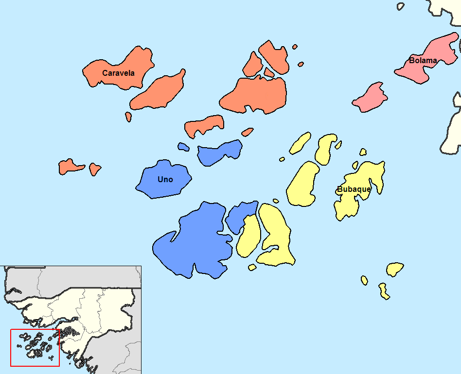 Map of the sectors of Bolama region of Guinea-Bissau. Created by Rarelibra 14:13, 14 September 2006 (UTC) for public domain use, using MapInfo Professional v8.5 and various mapping resources.